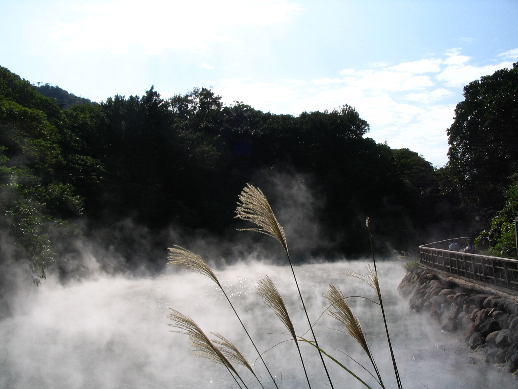 Photo of Beitou Hell Valley